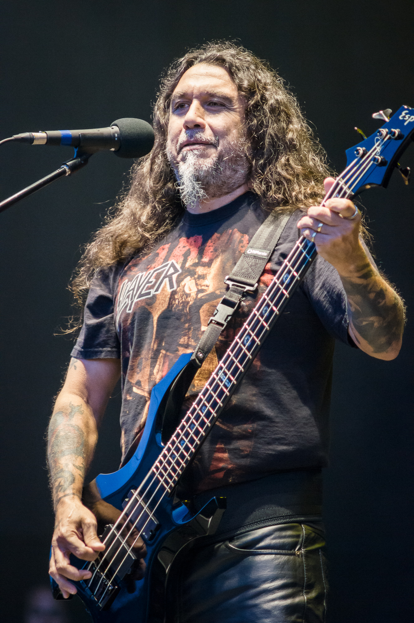 Tom Araya – a lead singer and bass player of Slayer. Ursynalia 2012 Festival, Warsaw, Poland.